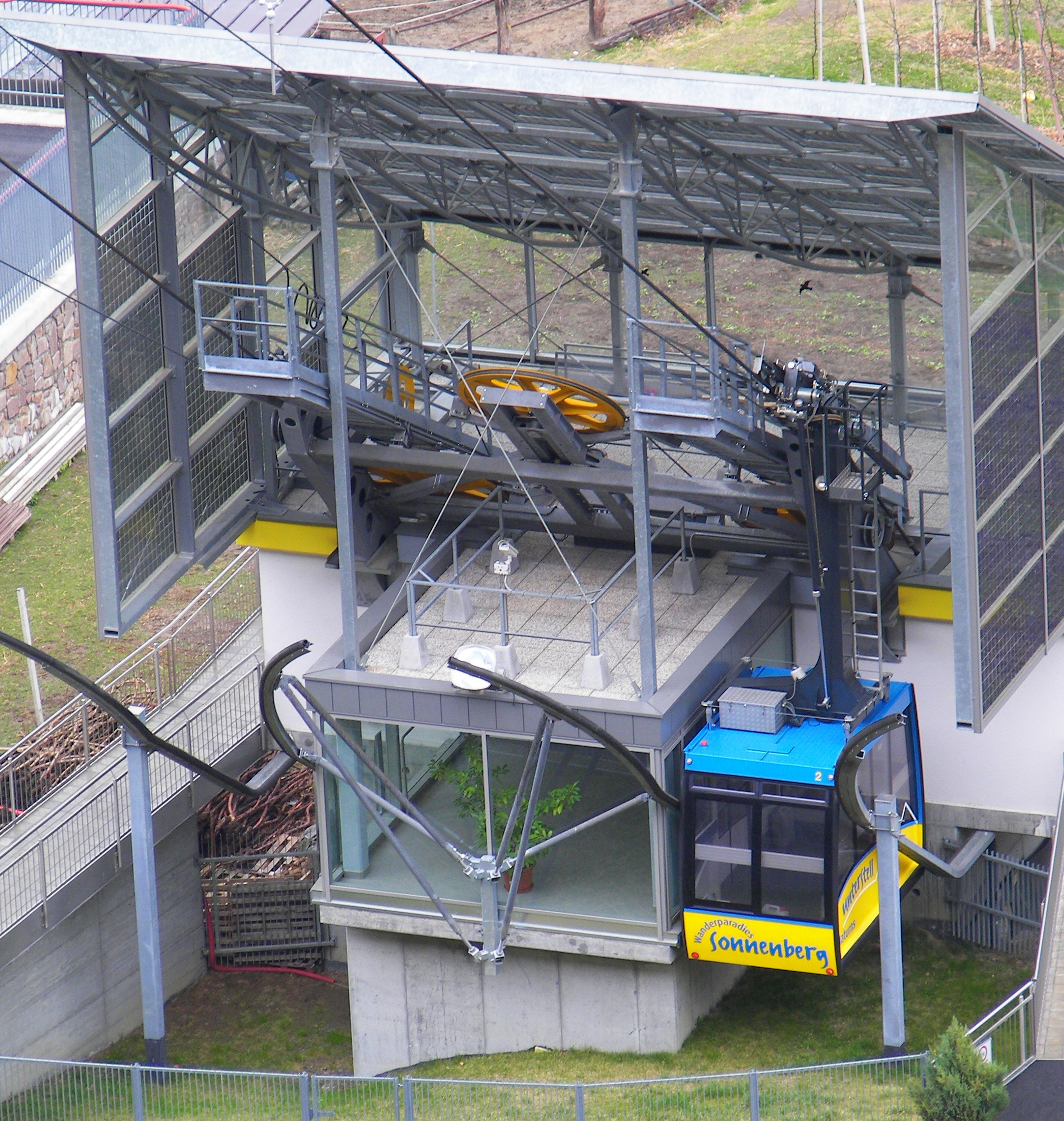 Valley station of cable railway Unterstell at Sonnenberg in Naturno